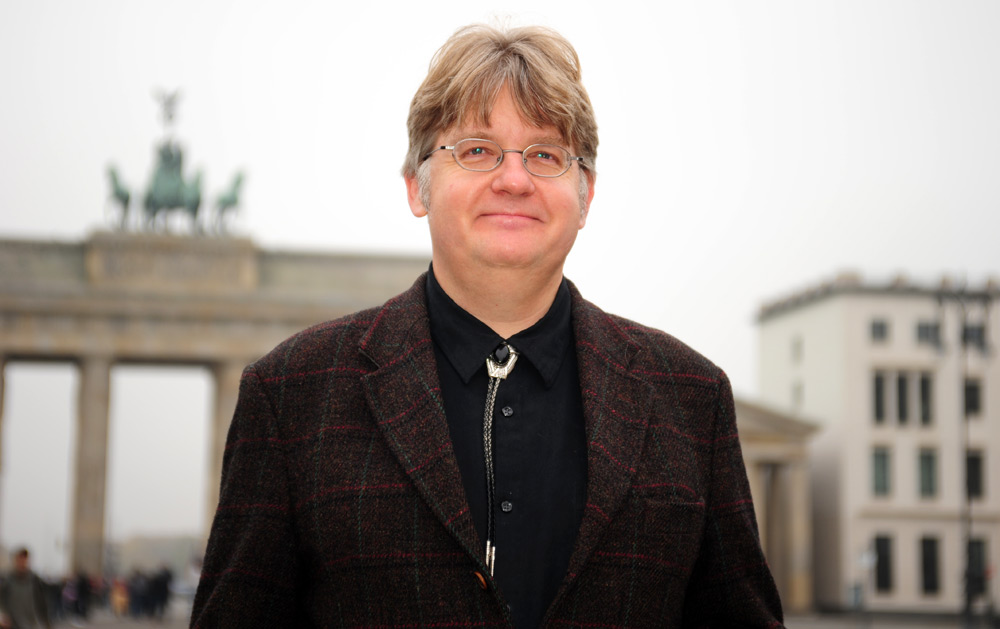 Eric T. Hansen, author, journalist, columnist